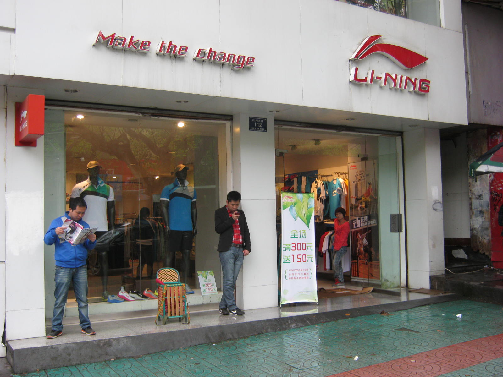 Li-Ning store in HuaiHua, Hunan Province.